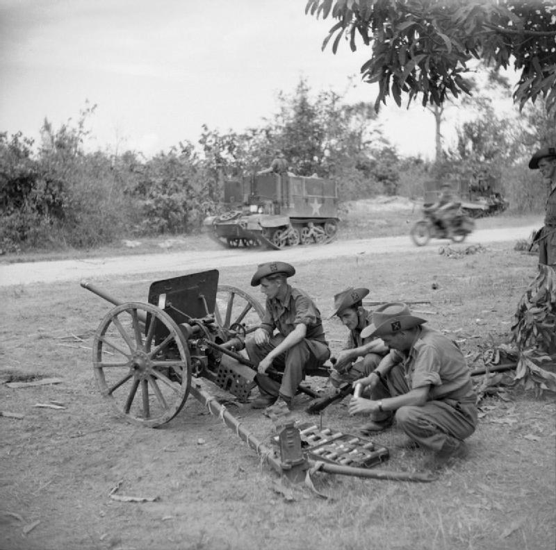 The British Army in Burma 1945 Soldiers examine a captured Japanese 37mm anti-tank gun, January 1945. A carrier fitted with deep wading screens passes by in the background.